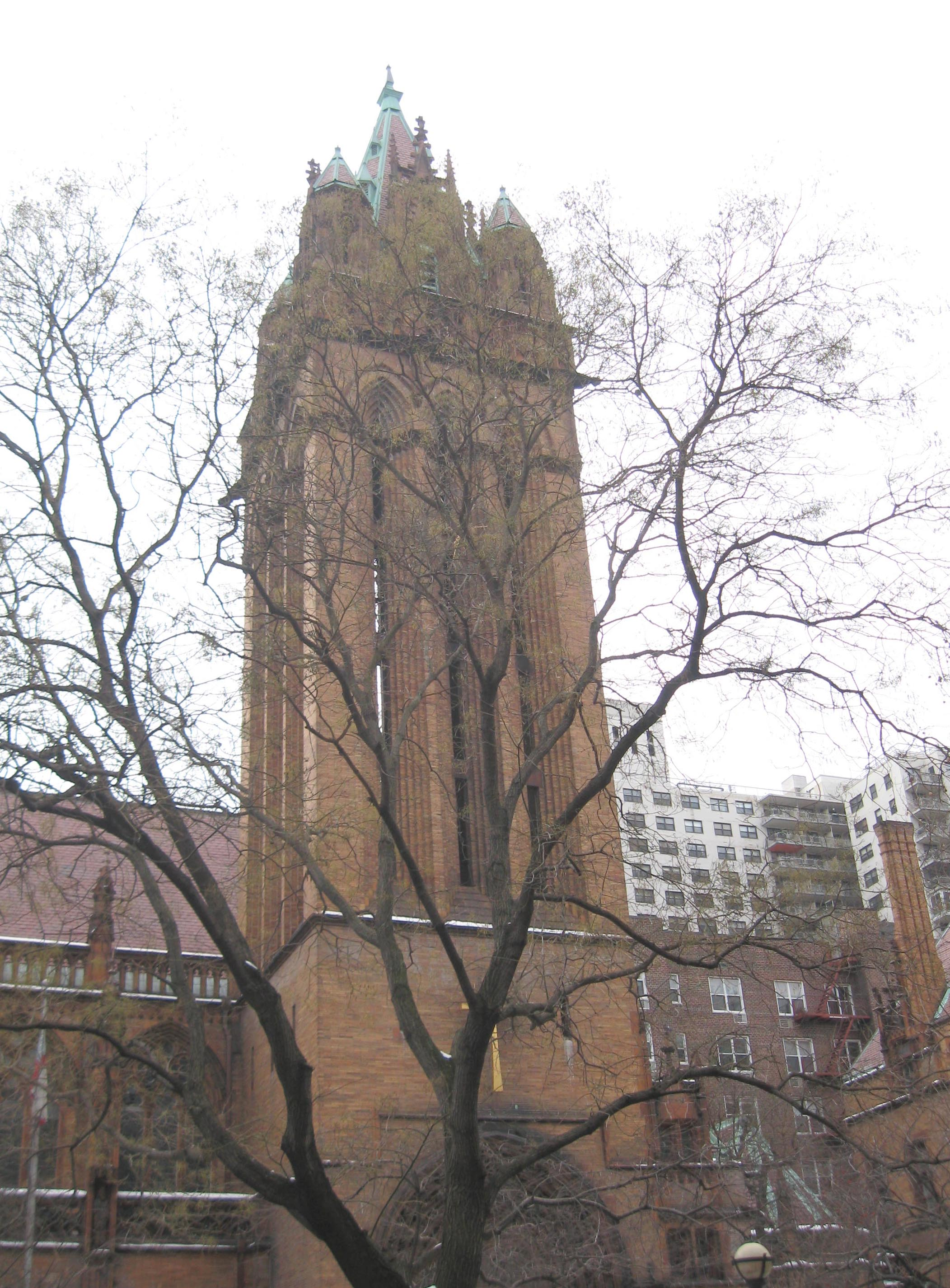 Looking southwest across East 88th Street at the Episcopalian Church of the Holy Trinity on a cloudy afternoon. It's on National Register of Historic Places listings in Manhattan above 59th to 110th Streets and designated by NYCLPC in 1967, Guidebook map 16.